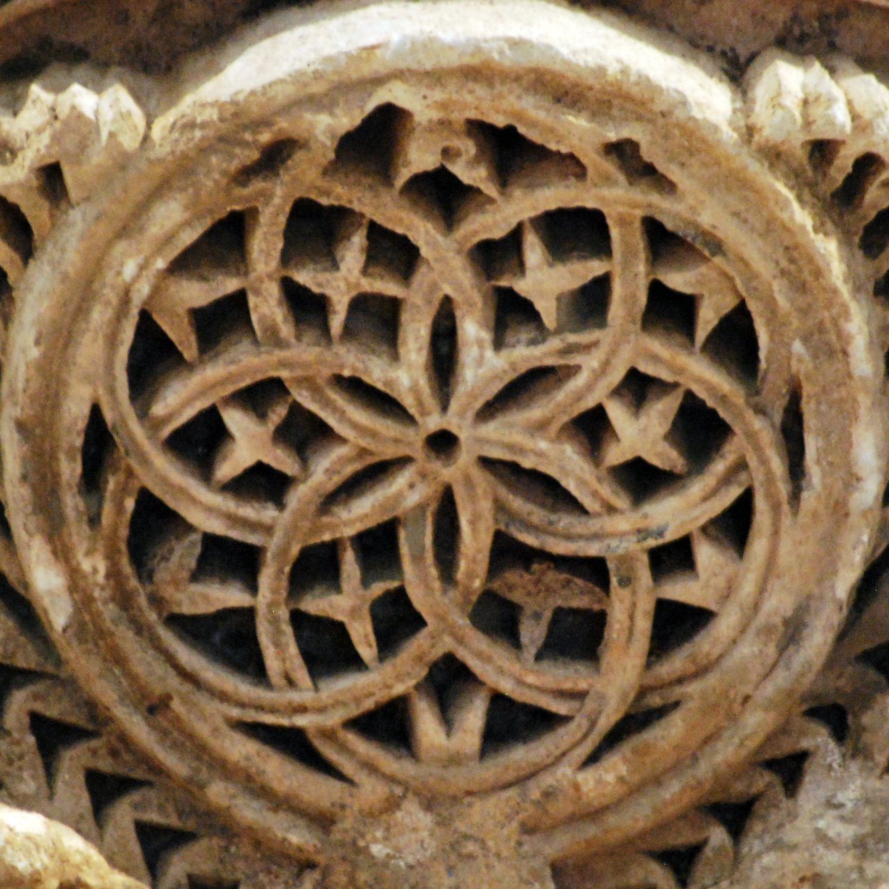 Carved limestone from an unidentified Byzantine church.